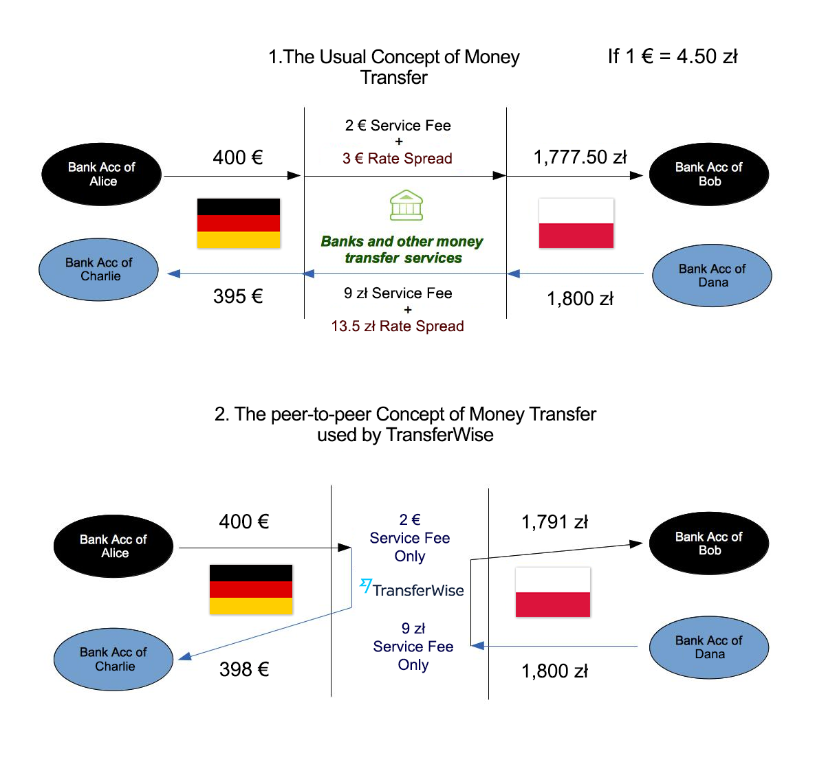 Usual money transfer services concept vs peer-to-peer money transfer concept. Based on previous diagram by Shaviraghu Updated to reflect real routes and costs